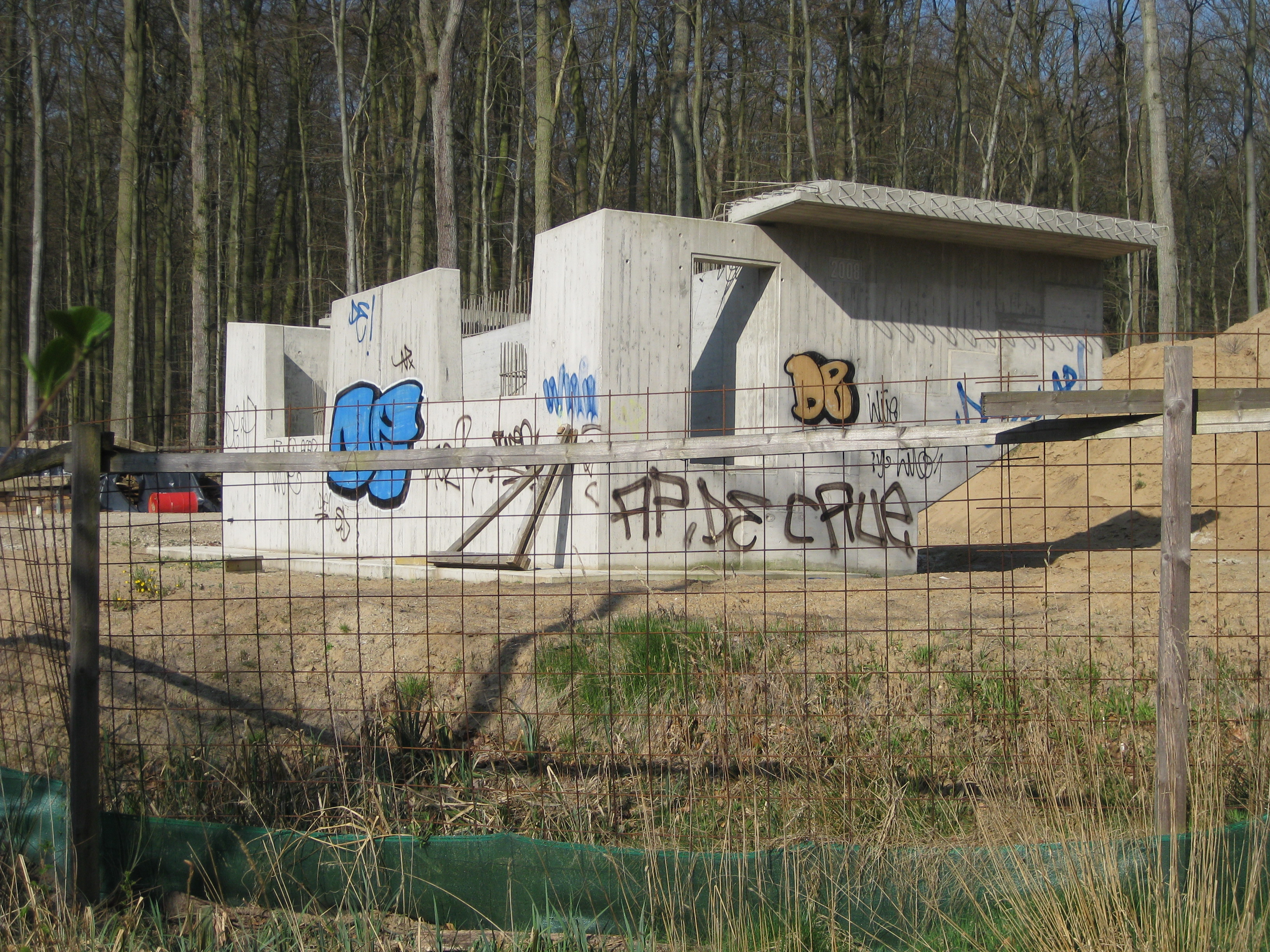 Bridge under construction in Lauerholz forest near Schlutup for planned bypass of the B 104